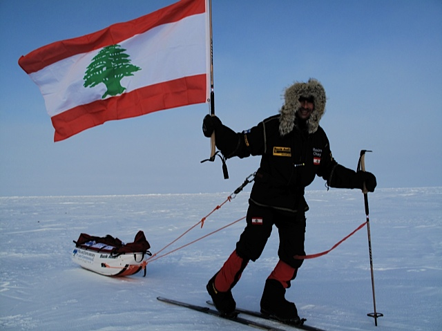 Maxime Chaya holding the Lebanese flag in the North Pole.